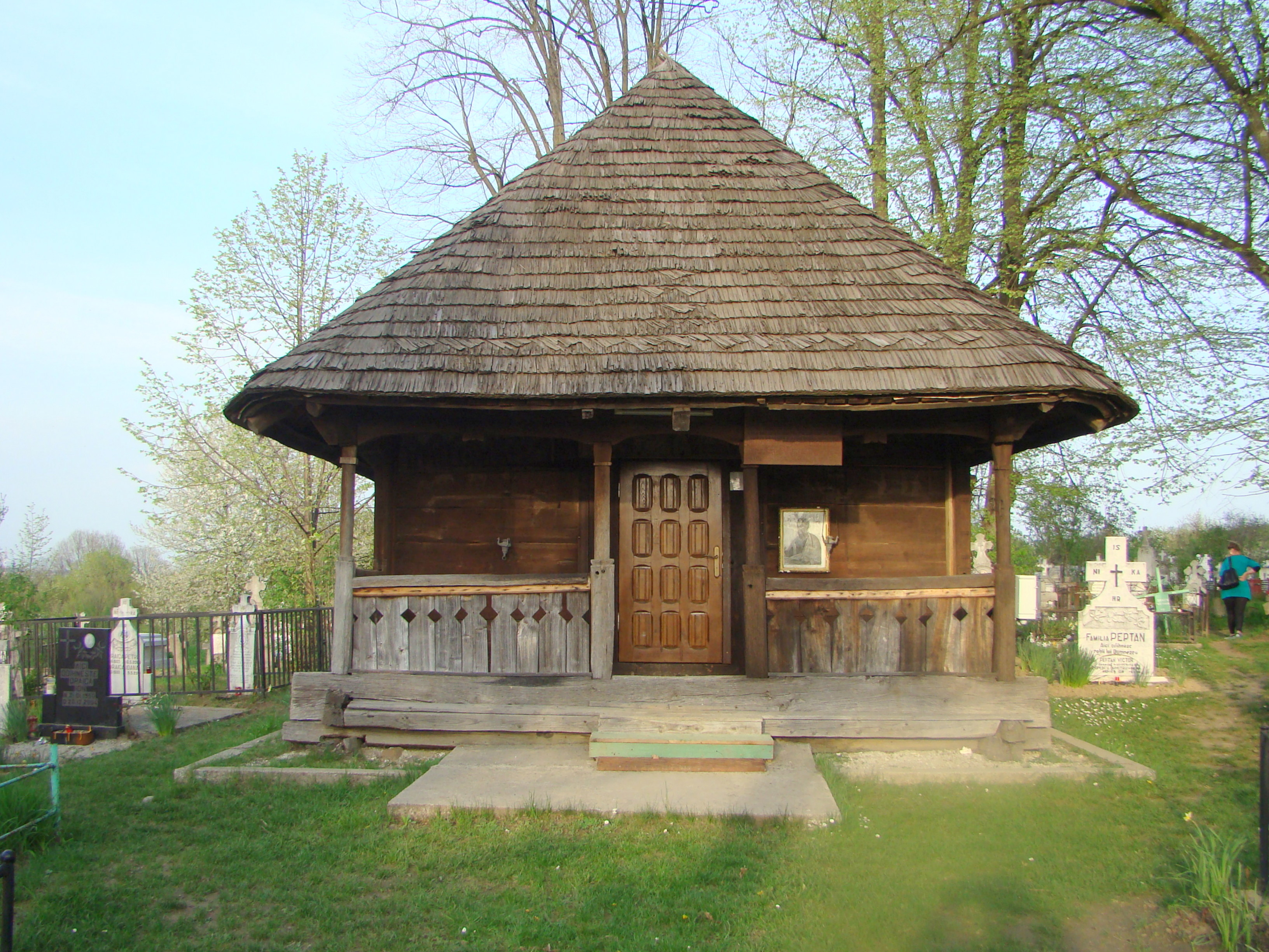 St. Basil's wooden church in Pieptani, Gorj county, Romania